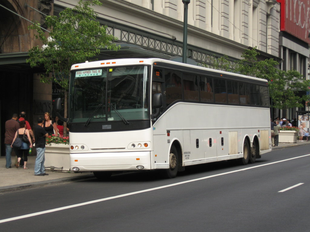 Van Hool C2045 Double Happiness Bus (#222) near Macys Herald Square.